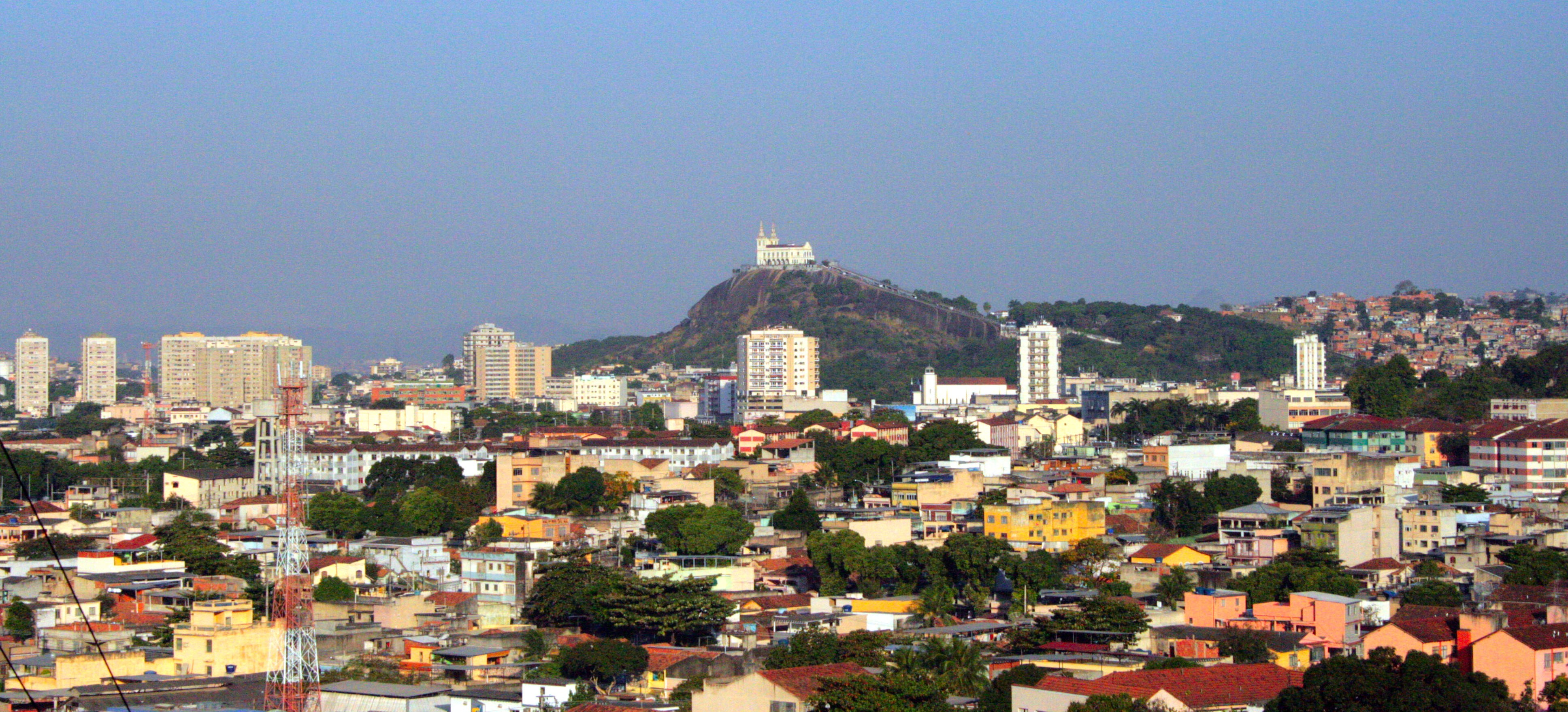 H, for Height.